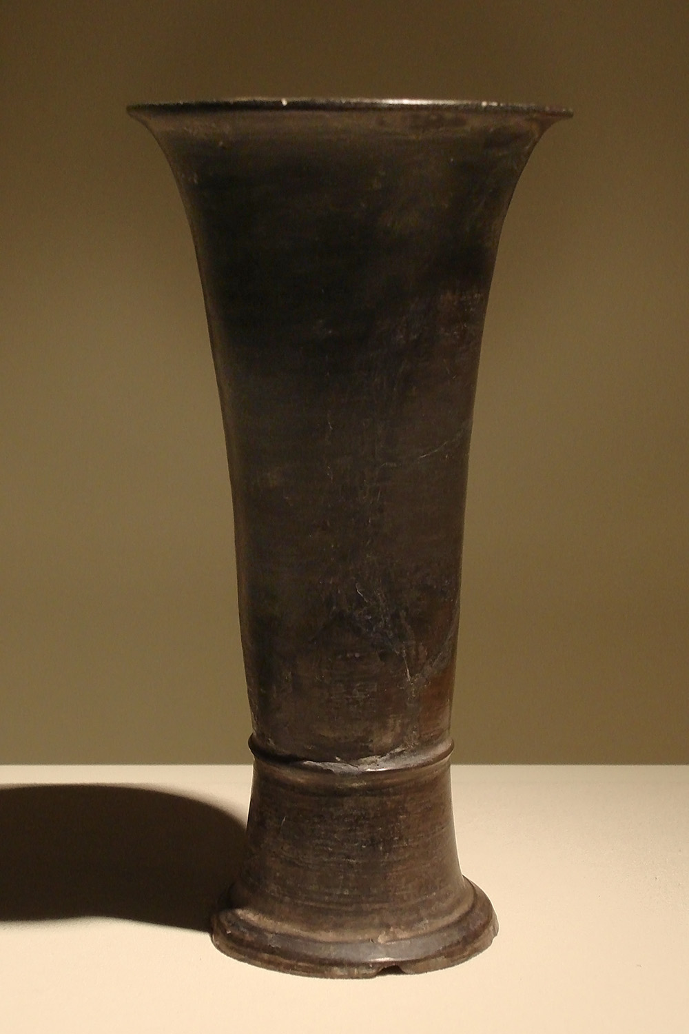 Pottery Gu (wine vessel) Xia Dynasty (2100 - 1600 B.C.) Excavated at Yanshi, Henan Province, 1960 Vessels like this were used to store wine before it was poured out for drinking.